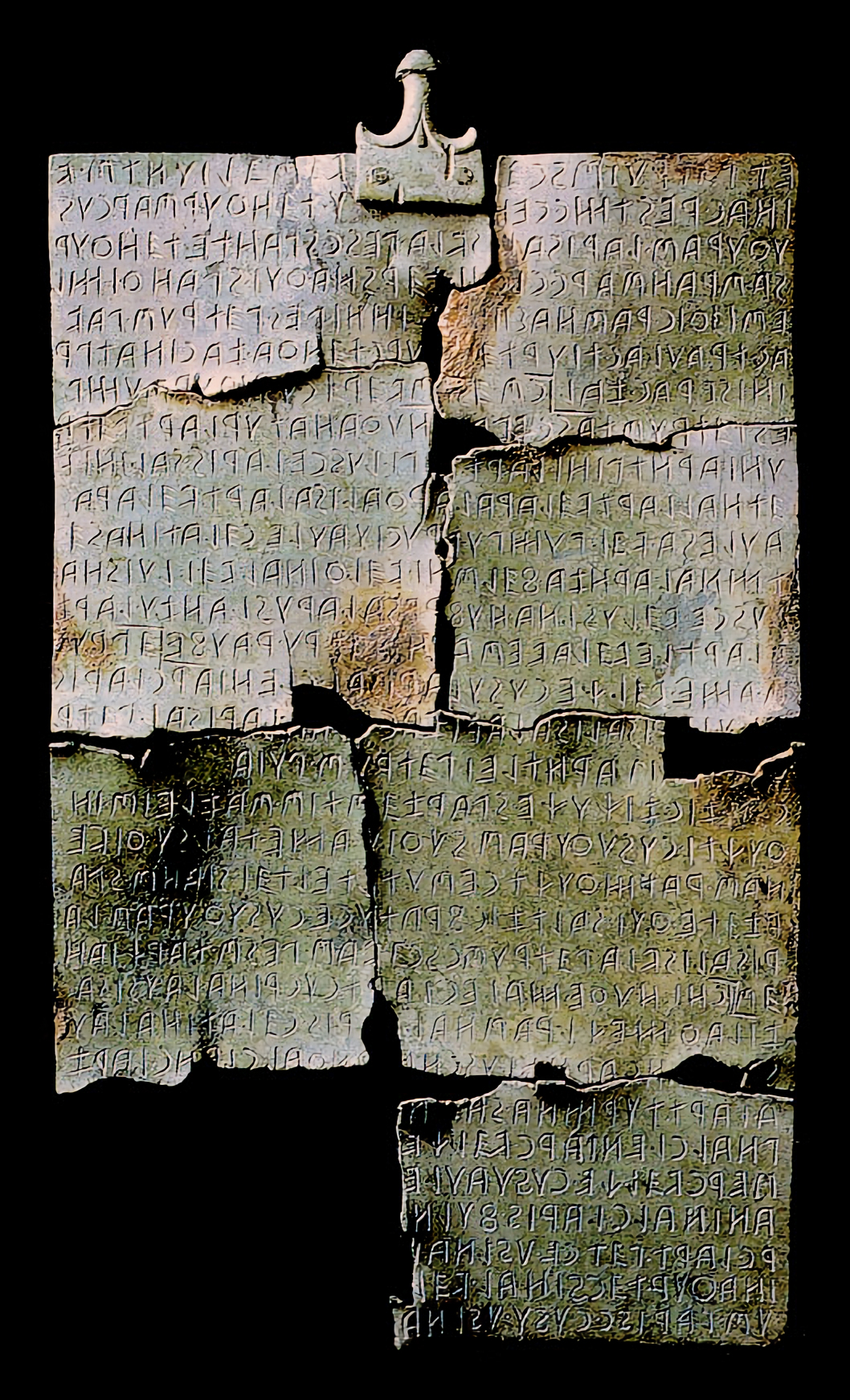 Fig. 3, bronze. Cortona Tablet Cortona 4th-5th Cent BCE